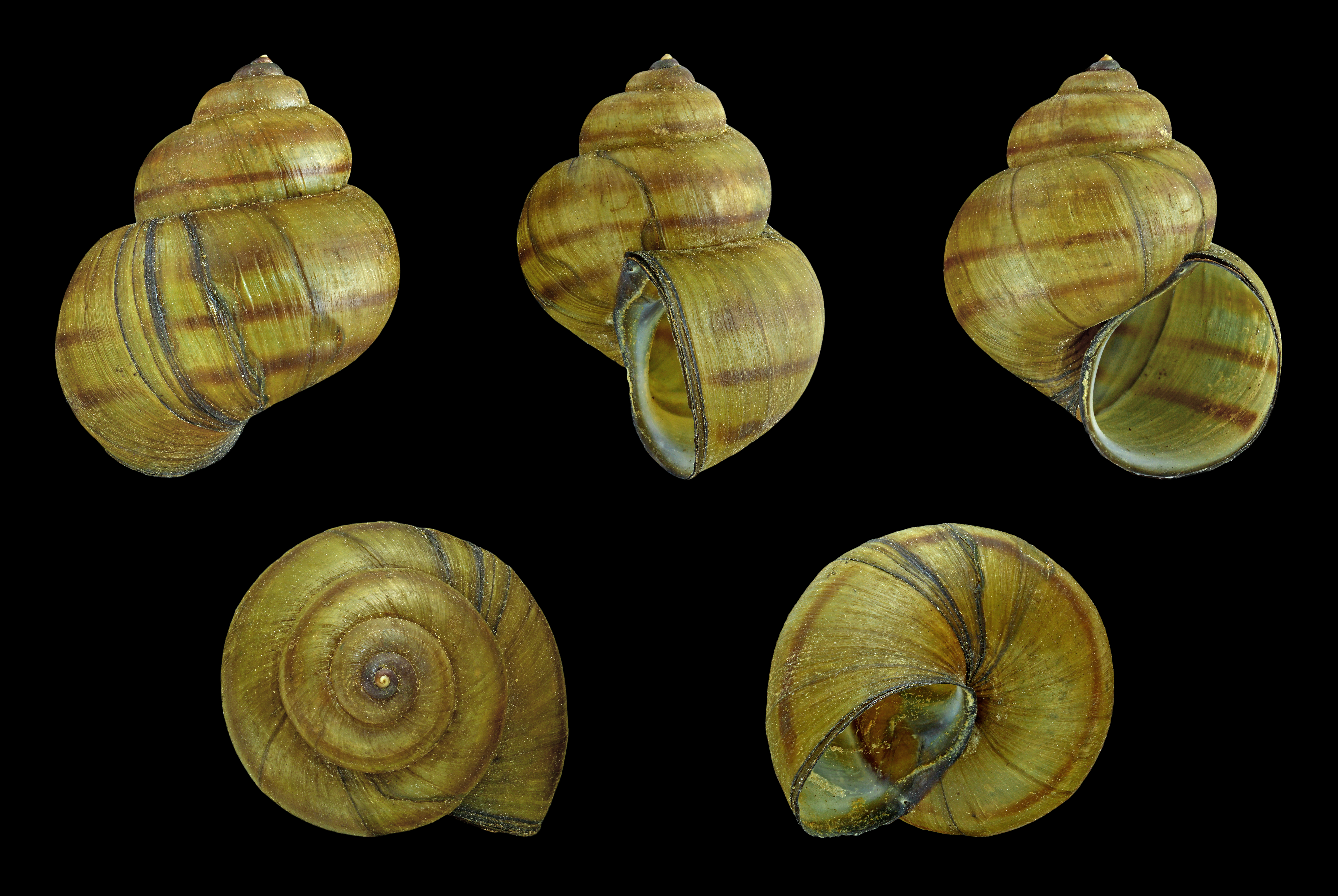 Lister's River Snail; Length 2.7 cm; Originating from Rappenwörth, Karlsruhe, Germany; Shell of own collection, therefore not geocoded. Dorsal, lateral (right side), ventral, back, and front view.